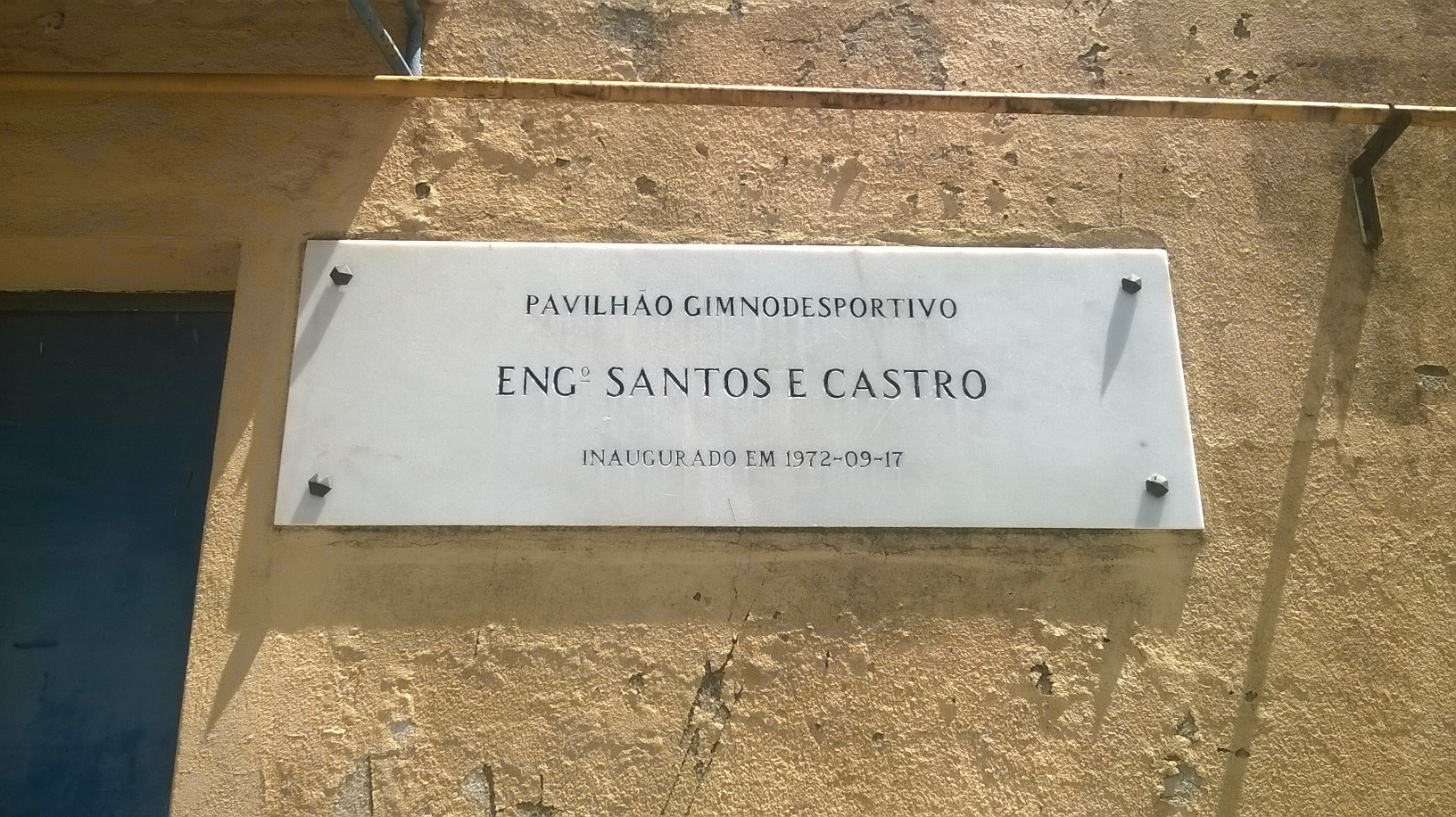 Placa no exterior do Pavilhão da Tapadinha referente à sua inauguração.